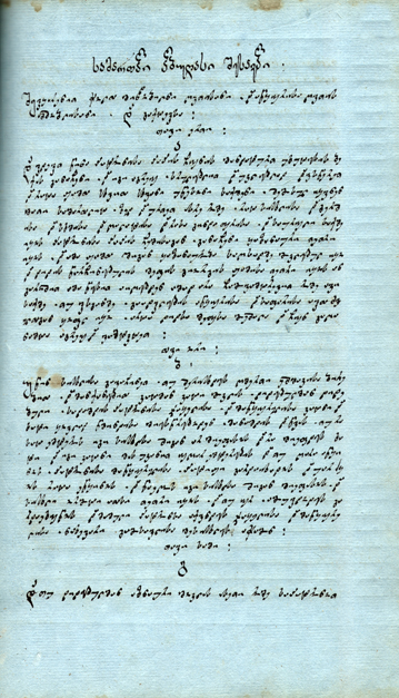 The Georgian law code of Prince Agbuga Jaqeli of Samtskhe.A manuscript from the 18th century compilation by King Vakhtang VI.